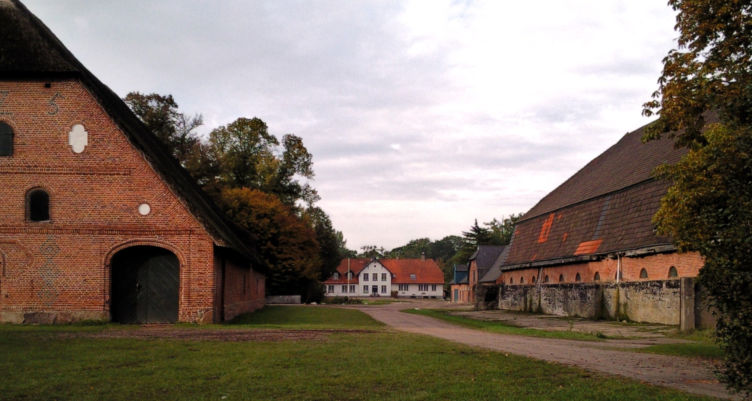 Aschberg Manor